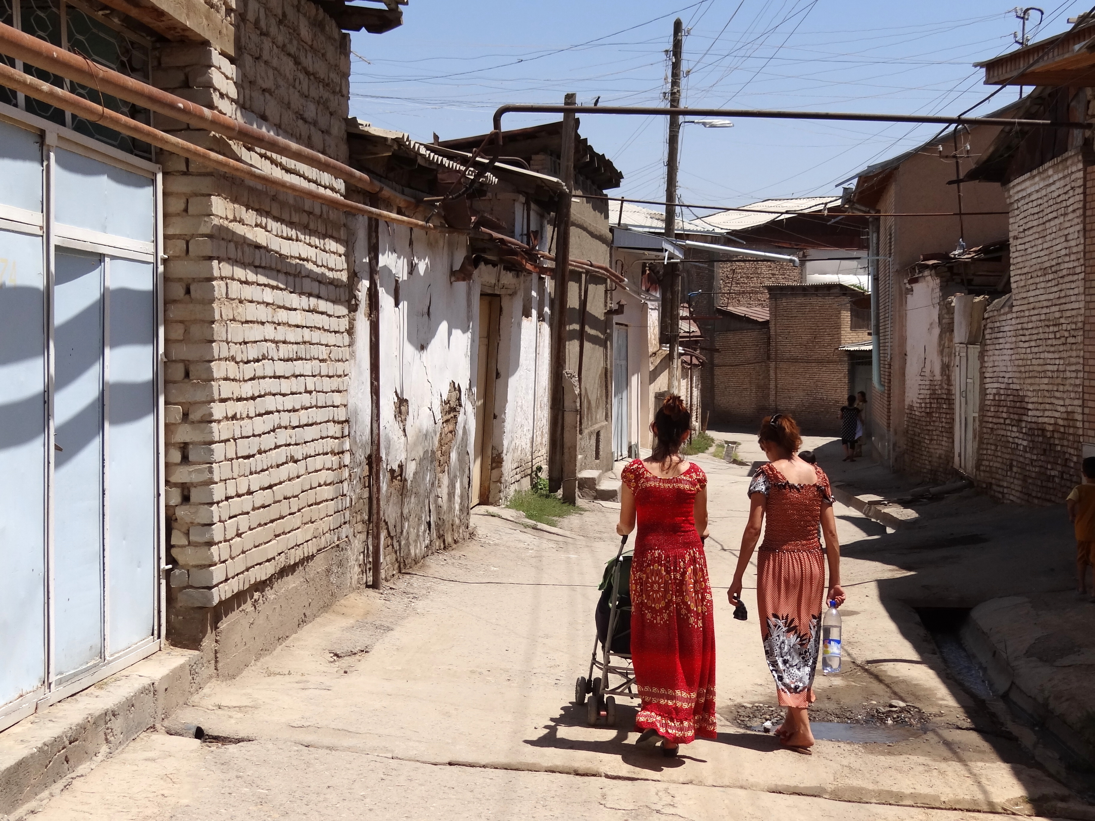 Old City (Jewish Quarter) Street Scene - Samarkand - Uzbekistan - 03